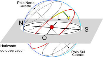 Equatorial coordinate system for earth observer. Should be viewed along with Image:Sistema-equatorial-coodenadas.png This PNG graphic was created with Inkscape.